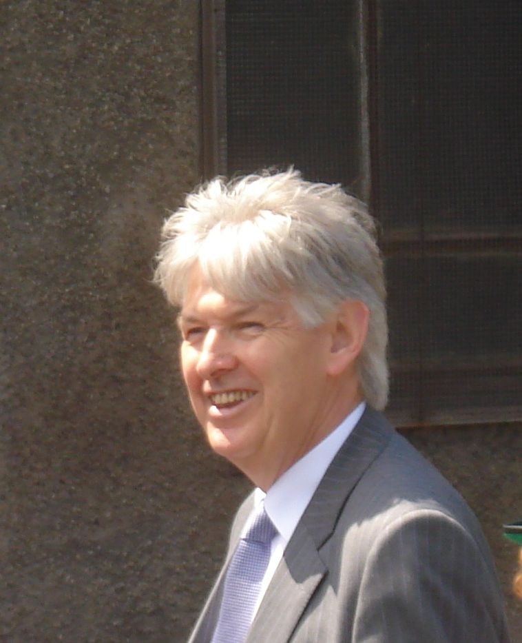 Photograph of Michael Connarty MP